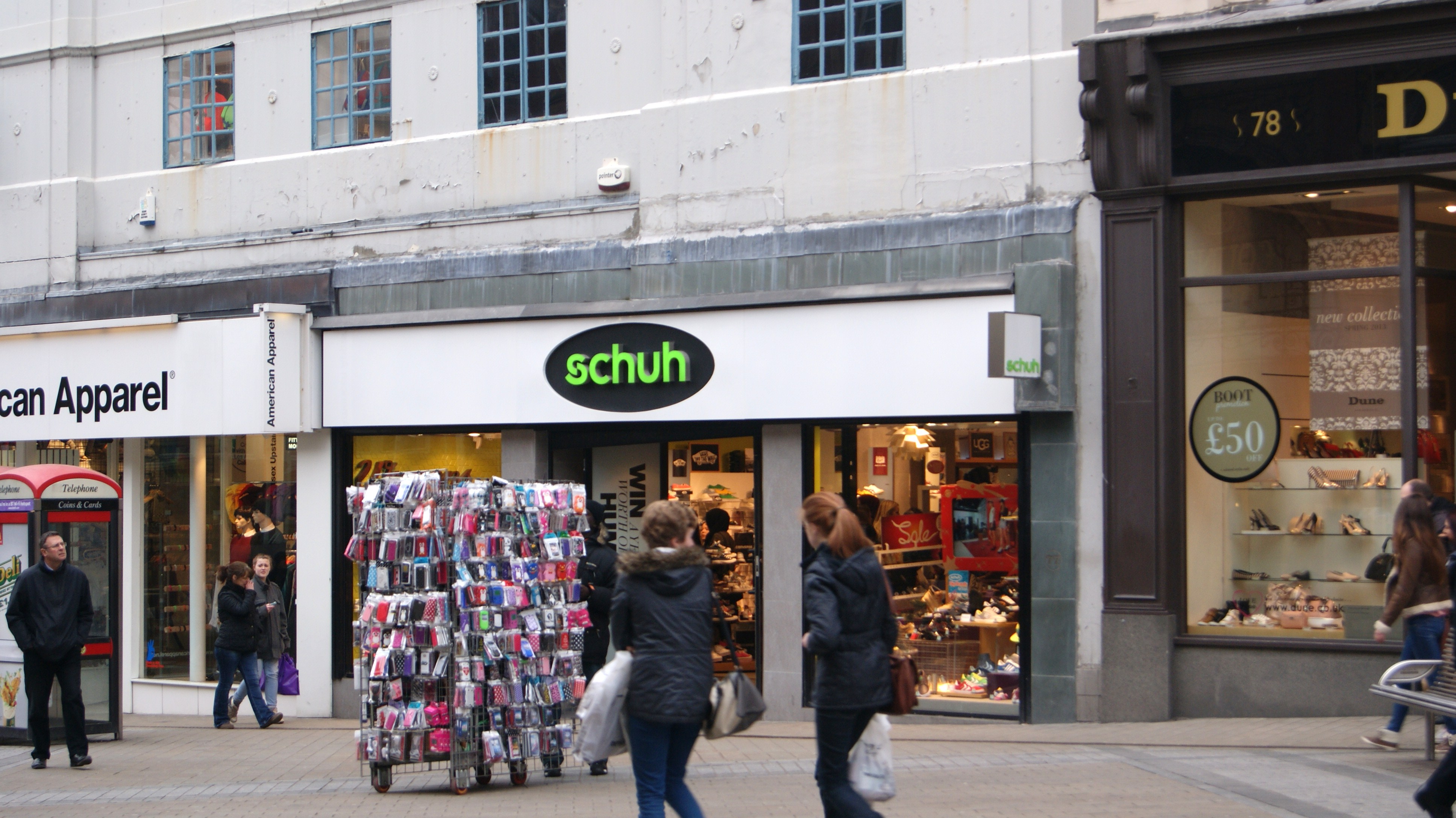 Schuh, Briggate, Leeds, West Yorkshire. Taken on the afternoon of Wednesday the 2th of February 2013.